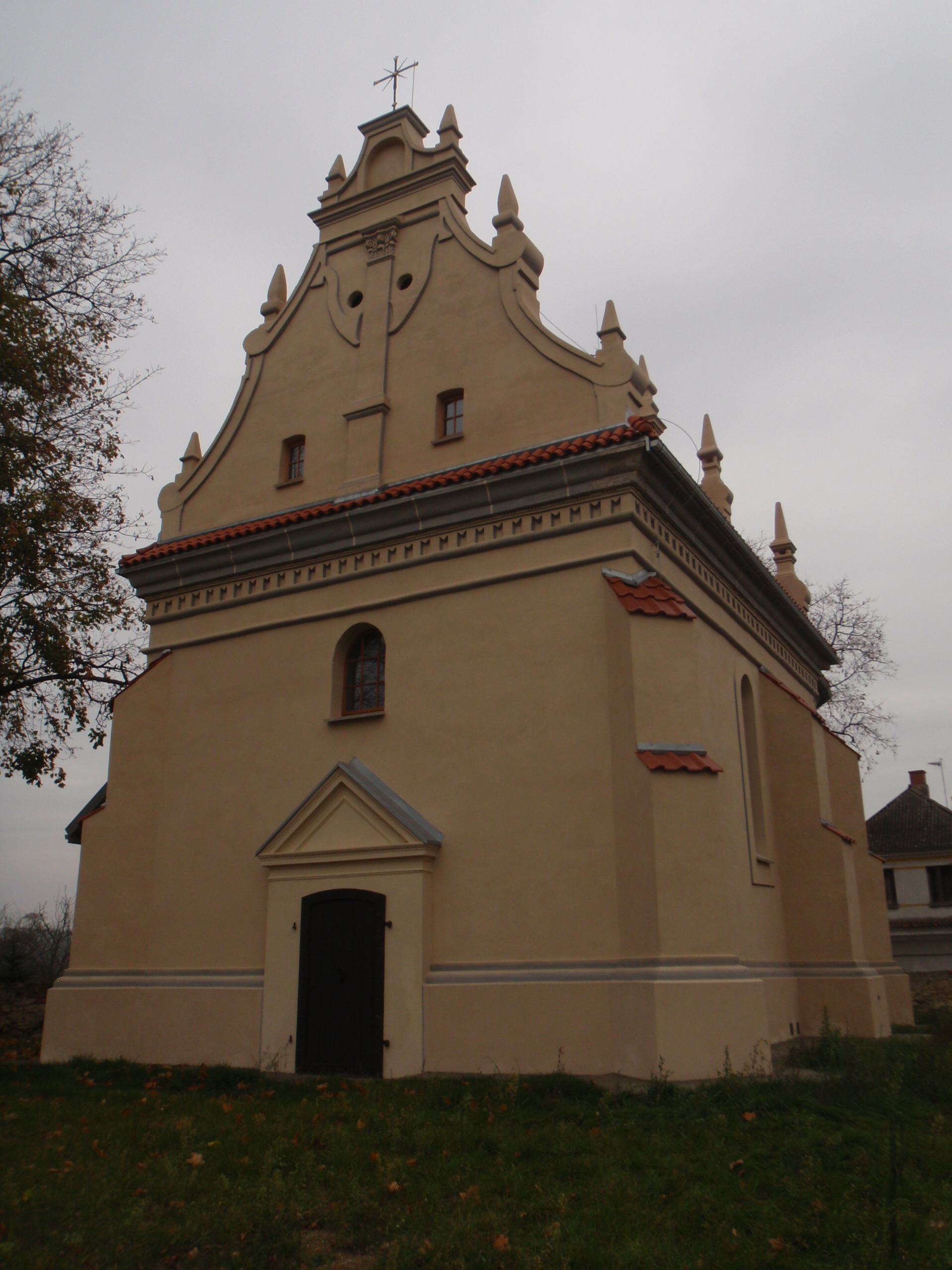 Complex of the church of Saint Anne in Końskowola